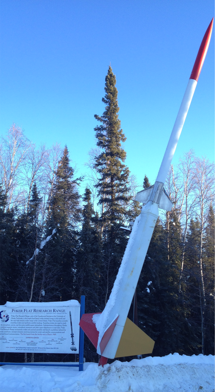 The entrance to the Poker Flat Research Range The range is located 30 miles north of Fairbanks on the Steese Highway. Operated by the University of Alaska, Poker Flat Research Range is the only university-owned sounding rocket launching facility in the world. NASA personnel and scientists from across the nation have launched scientific sounding rockets from the facility since the late 1960s. Credit: NASA/Goddard NASA image use policy